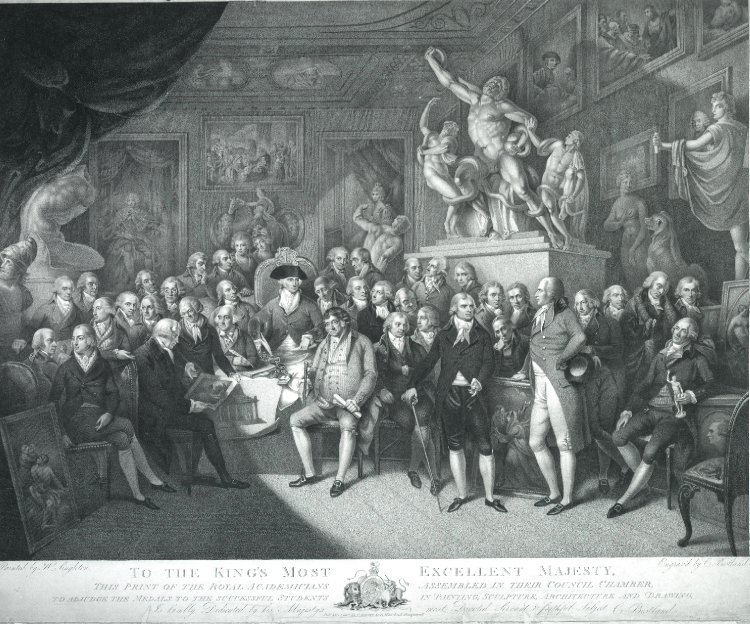 "Print of the Royal Academicians Assembled in their Council Chamber, to Adjudge the Medals to the Successful Students in Painting, Sculpture, Architecture and Drawing." Print by Cantelowe W. Bestland, after the painting by Henry Singleton, which hangs in the Royal Academy, London. Stipple engraving. 668 mm x 901 mm. Courtesy of the British Museum, London.